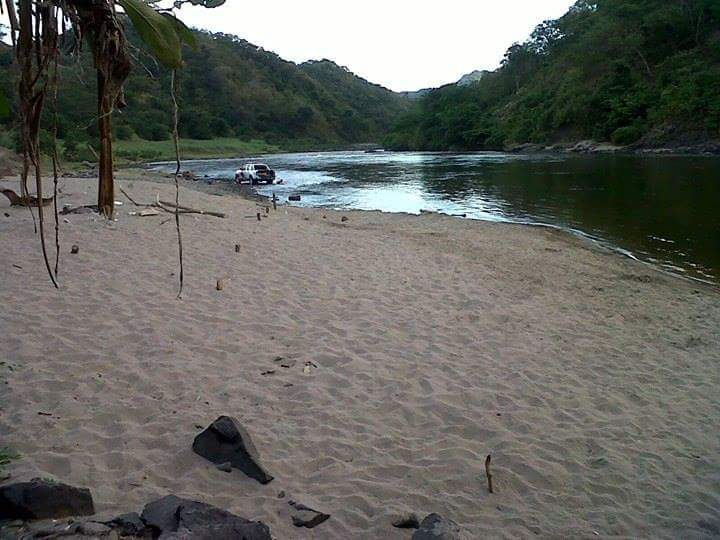 Virginia lempira puerto las flores año 2016.